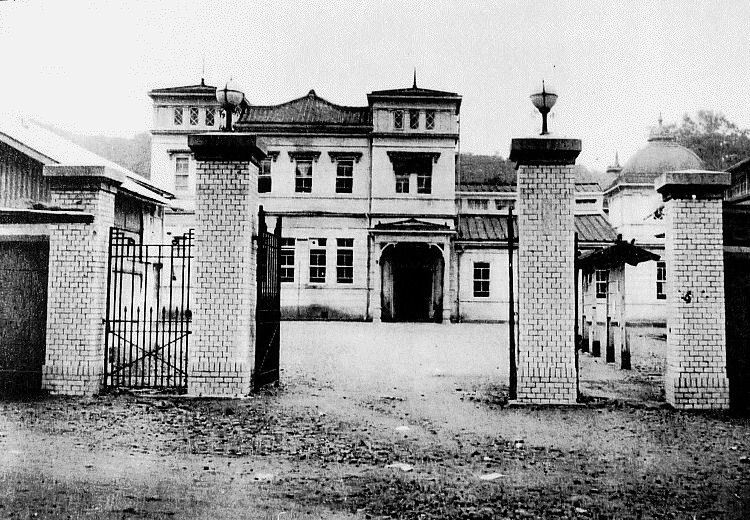 Nakajima Aircraft Company Head Office in Taisho era